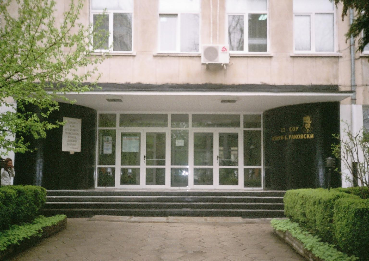 Gueorgui (George) Rakovski High School - Sofia - main entrance